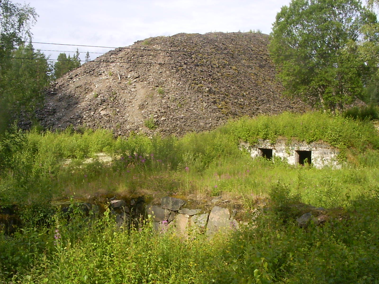 Ågs bruk, slag heap